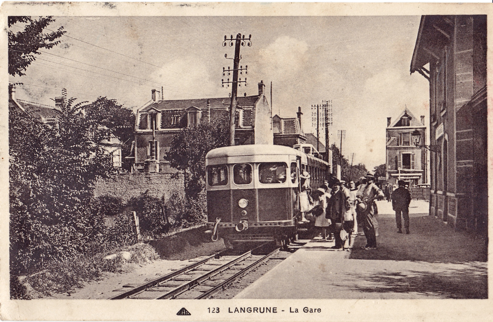 Micheline railcar in Langrune-sur-Mer station.